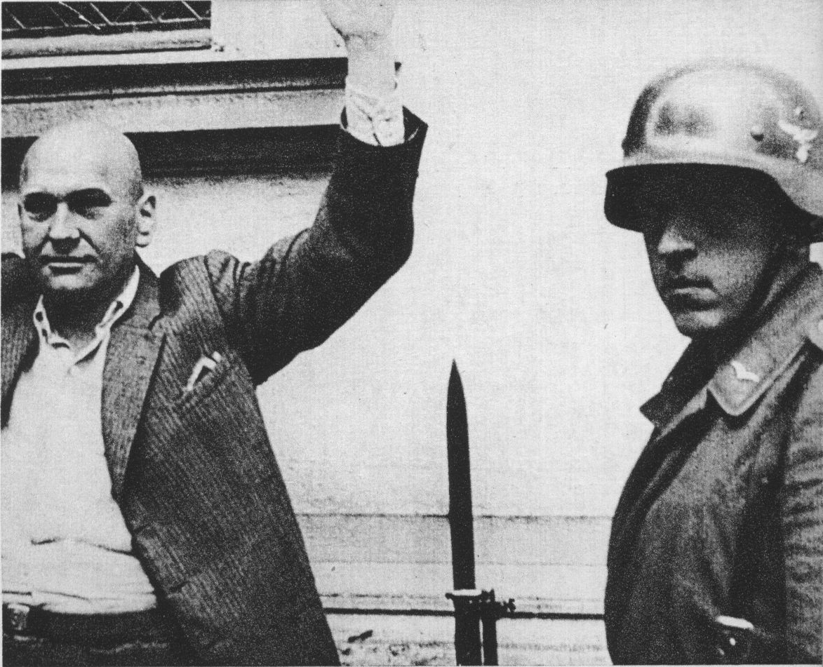 Bydgoszcz on 8th September 1939 – first days of German occupation. Polish civilian arrested during the “łapanka” and guarded by Wehrmacht soldiers at rallying point at Parkowa Street.